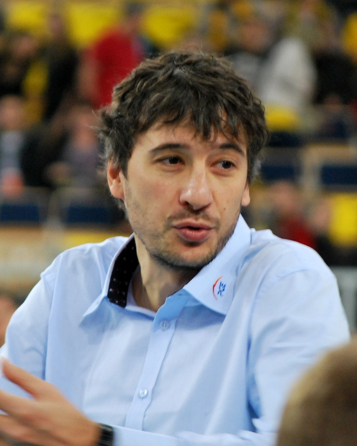 Miguel Falasca, volleyball coach from Argentina